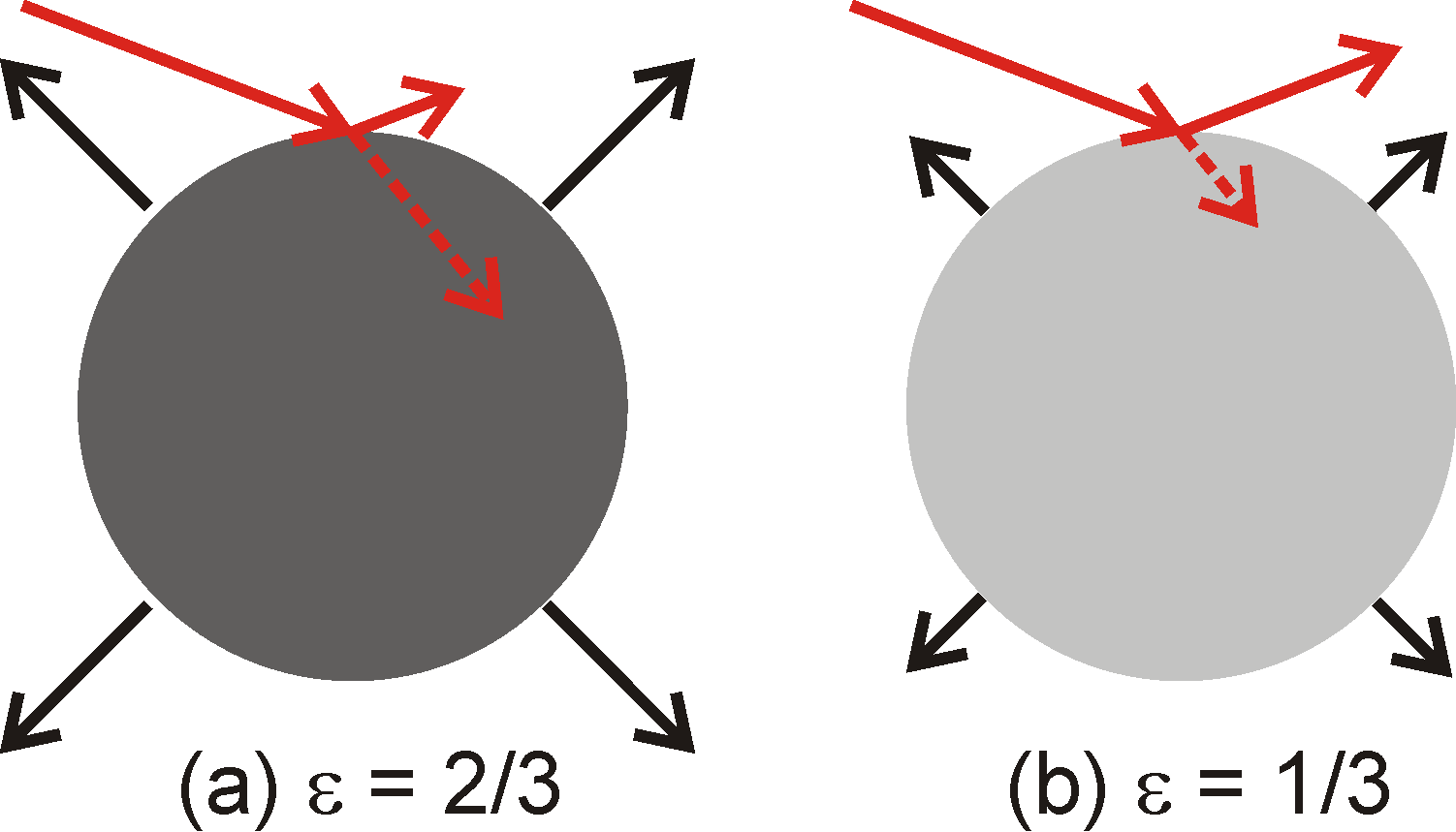 Kirchhoff's law of thermal radiation: bodies with high absorption have a high emissivity.